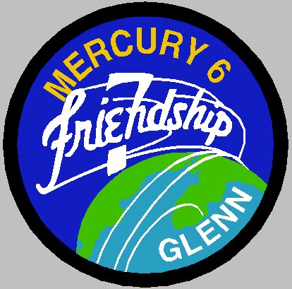 Mercury 6 - Patch